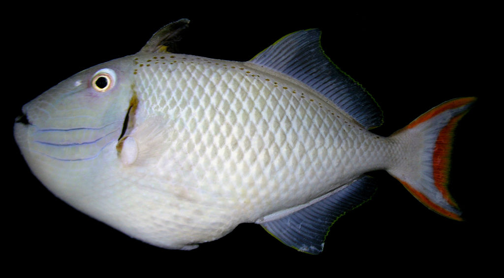 Holotype of Xanthichthys greenei (BPBM 40262), from Kiritimati (Christmas Island), Line Islands. Photo: R.L. Pyle.